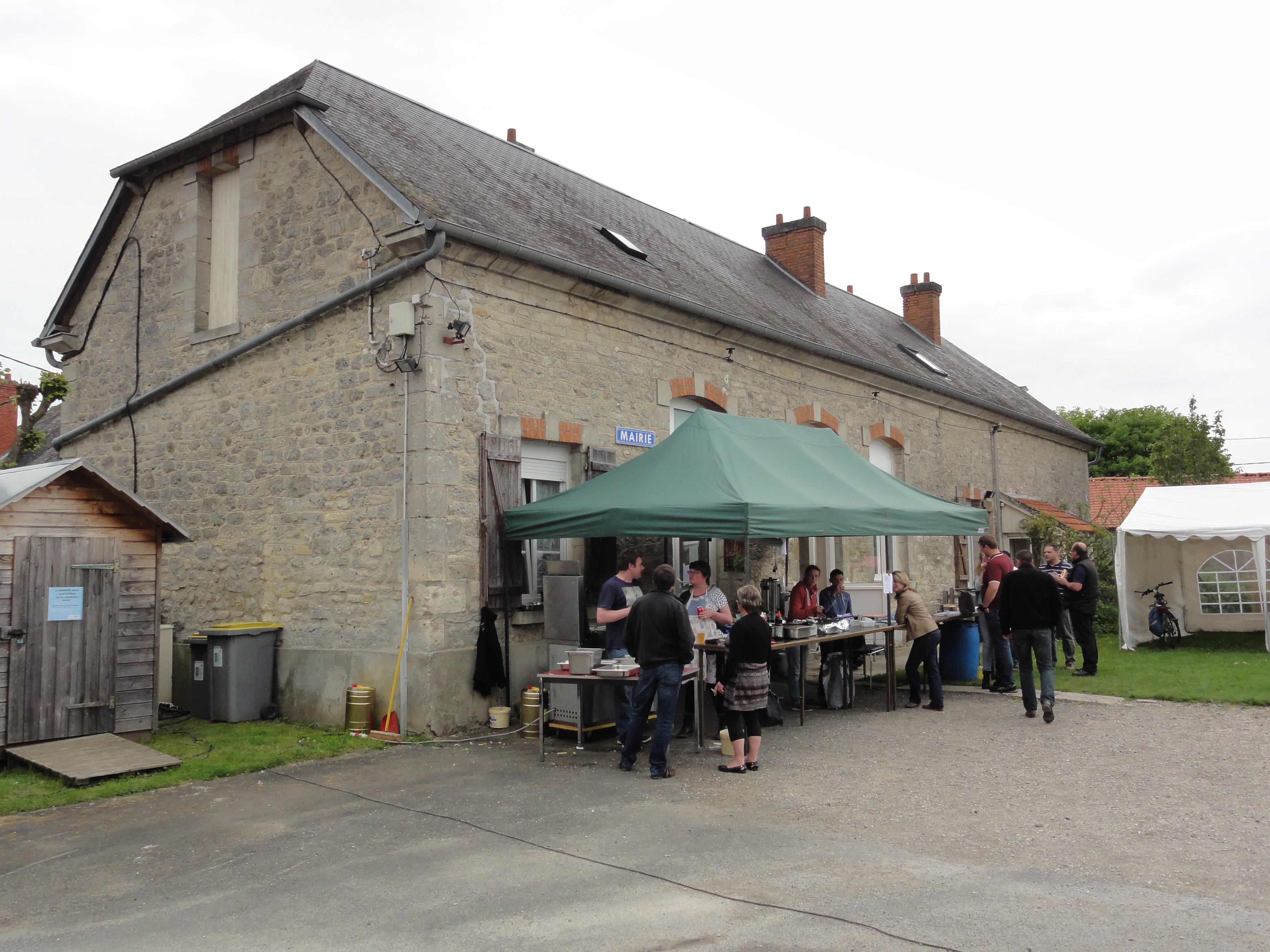 Sainte-Croix (Aisne) mairie